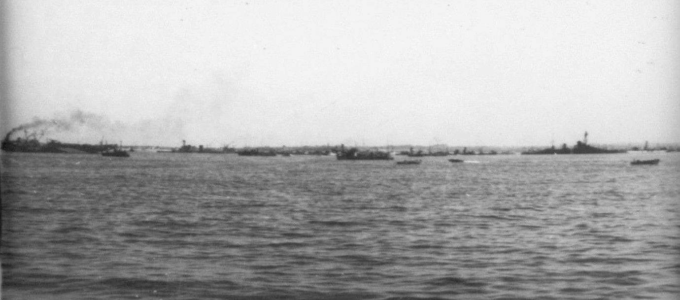 View of the landing operations from HMS Kelvin, June 1944. Landing craft on left of image, (possible) light cruiser on right and assorted other vessels.